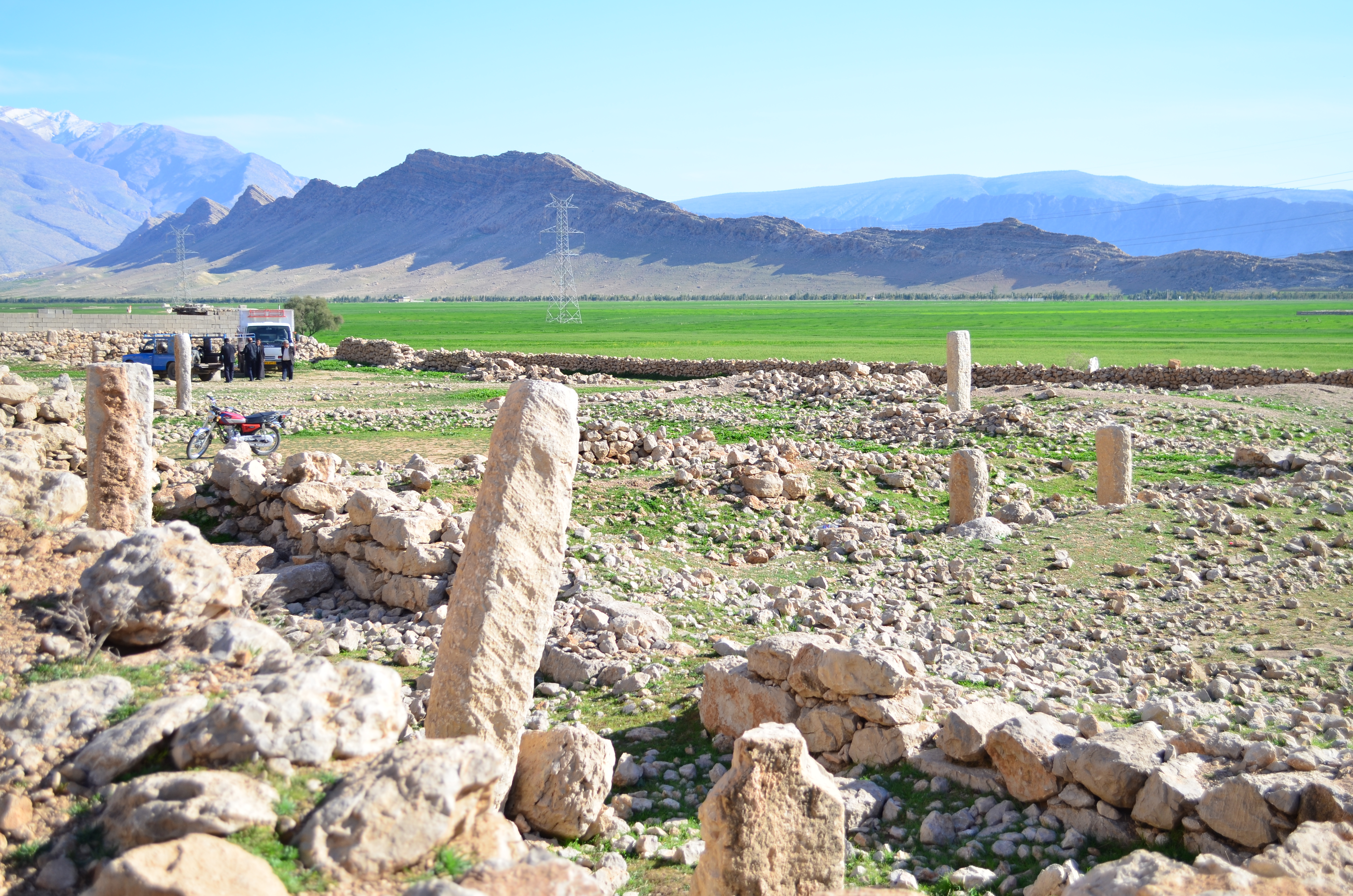 Kul-e Farah